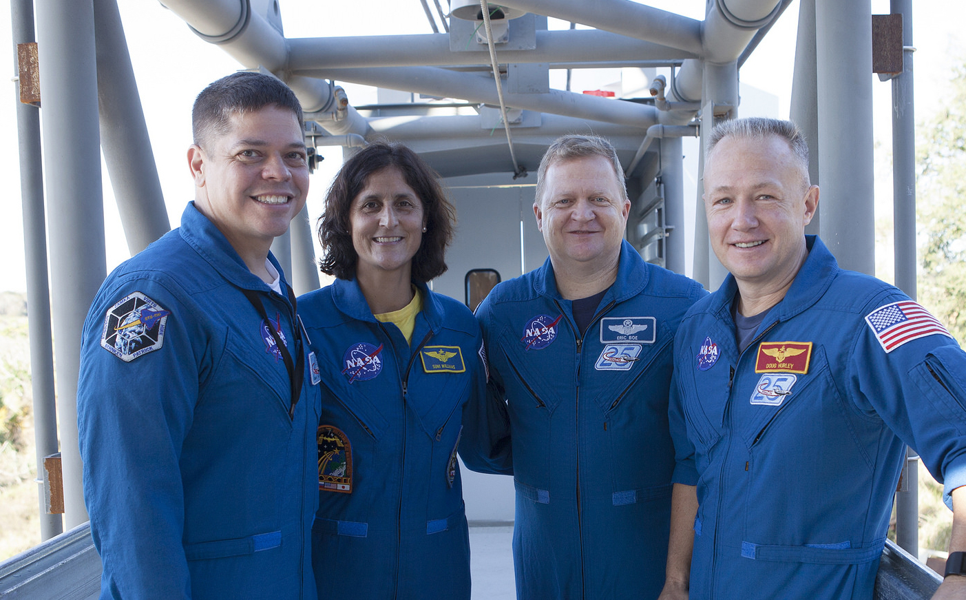 Commercial Crew Program Astronauts: Robert Behnken, Sunita Williams, Eric Boe, Douglas Hurley